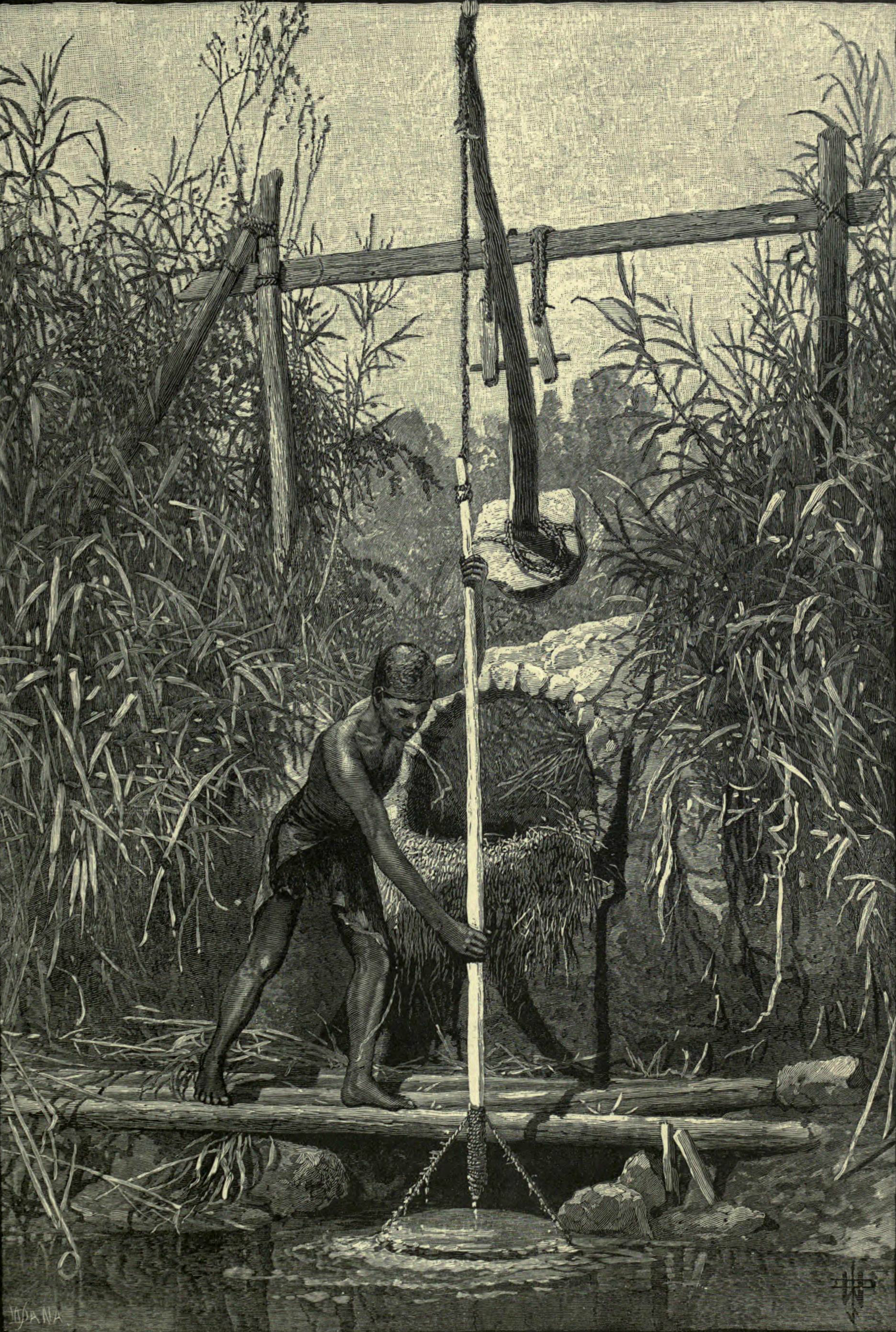 Caption: shadûf. The weight of the water in the bucket is balanced by the lump of Nile mud at the other end of the swinging beam, and the water is thus raised to the mouth of the canal with little effort: but pulling down the bucket is hard work, and the achine is ruinously extravagant in labour. Also spelt shadoof or shaduf.